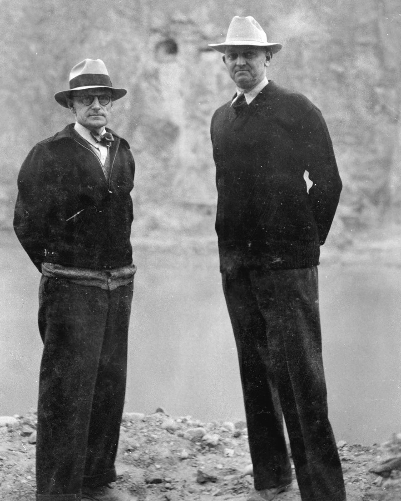 General Superintendent Frank Crowe (right) with Bureau of Reclamation Engineer Walter Young on the Hoover Dam site.